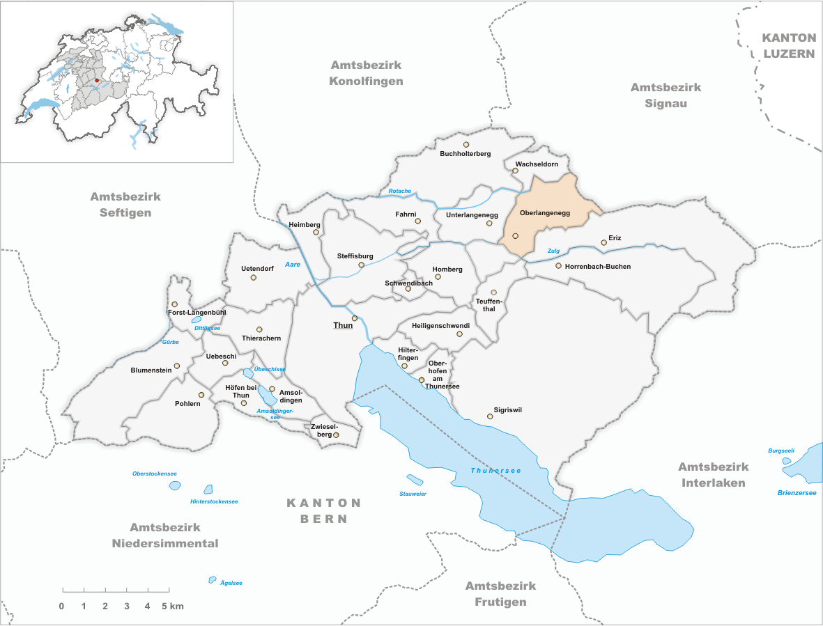 Municipality Oberlangenegg